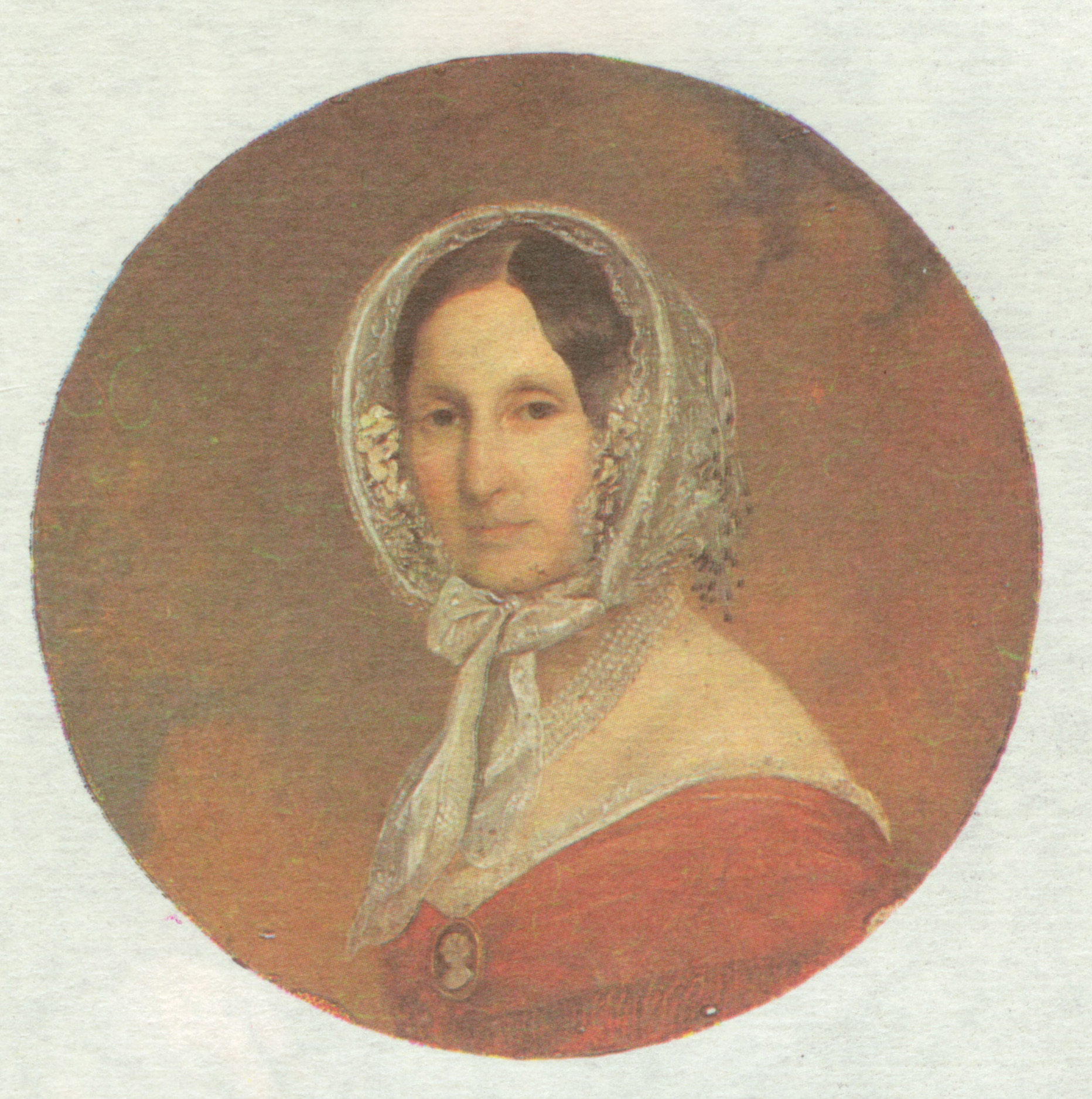 Portrait of Dorothea de Ficquelmont